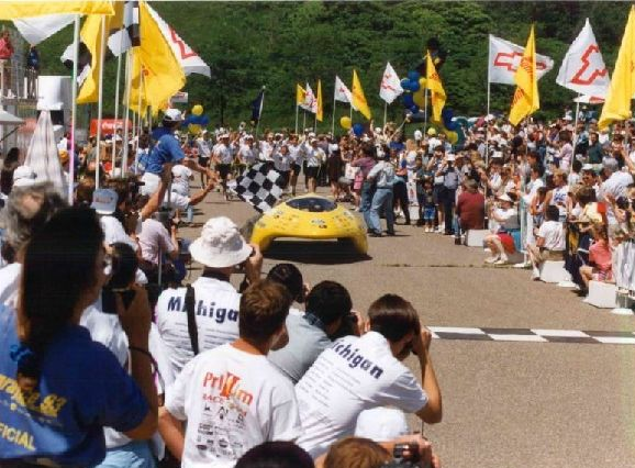 Maize & Blue 1993 University of Michigan Solar Car Team winning Sunrayce 93 in Minneapolis, MN.